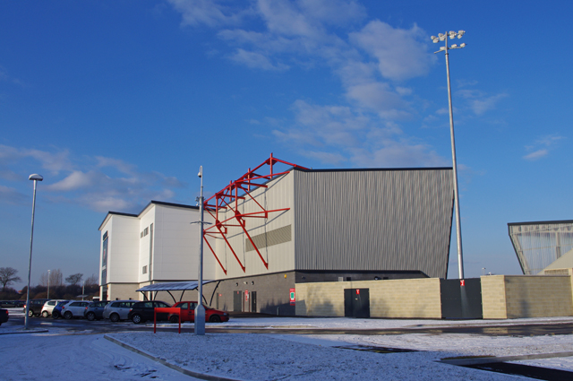 The Globe ArenaThe new stadium for Morecambe FC (The Shrimps), opened for the 2010/11 season.